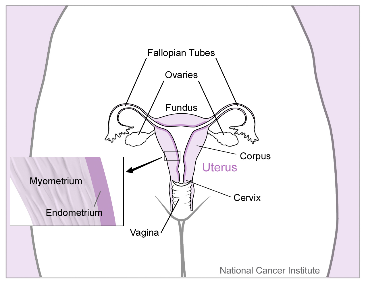 Title Uterus and Nearby Organs Description The uterus and nearby organs in the female reproductive tract (ovaries, fallopian tubes, cervix, and vagina). An inset provides a close-up view of the layers of the tissue in the uterus (myometrium and endometrium). Topics/Categories Anatomy -- Gynecologic Cells or Tissue -- Normal Cells or Tissue Type Color, Medical Illustration Source National Cancer Institute